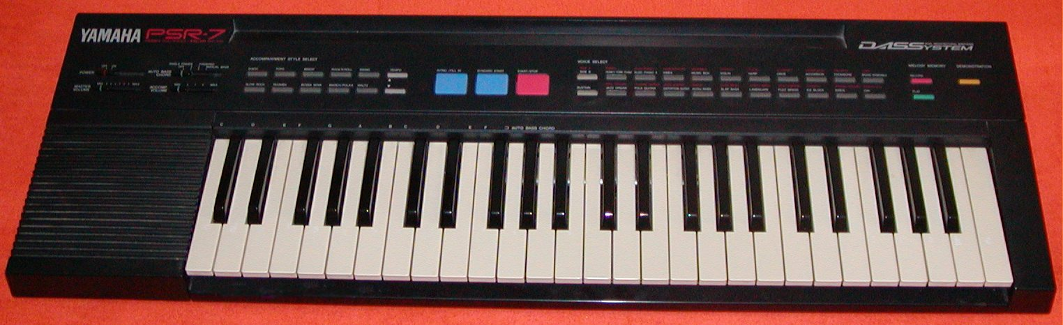 Yamaha PSR-7 music keyboard.